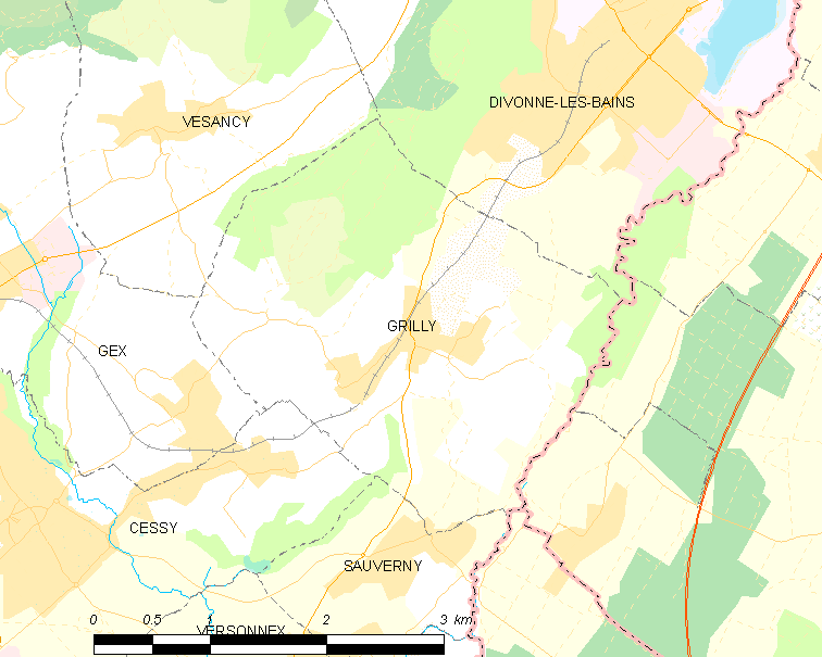 Map of French commune: Grilly Map commune FR insee code 01180.png